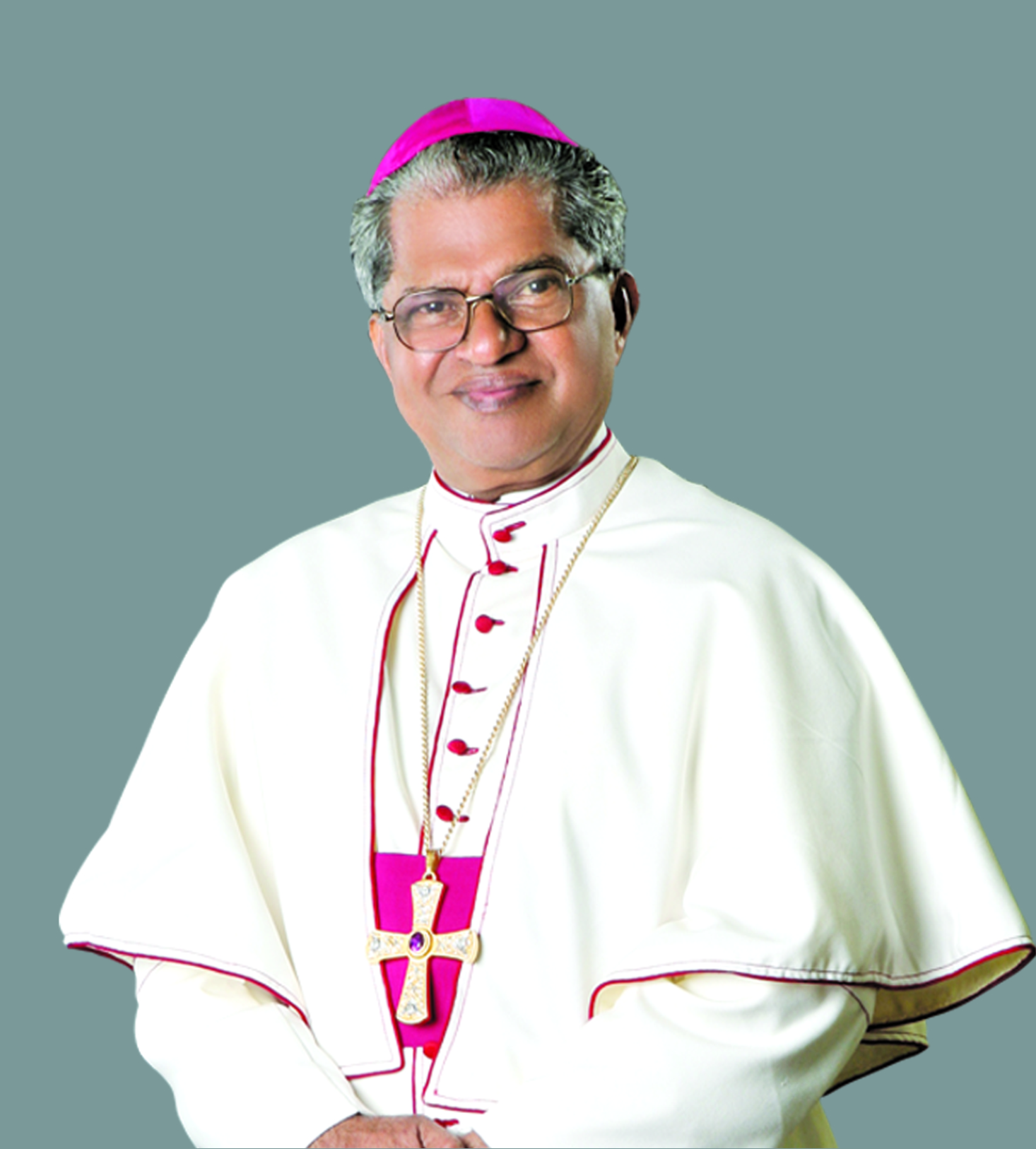 Photo of Archbishop His Grace The Most Rev. Dr. Francis Kallarakal